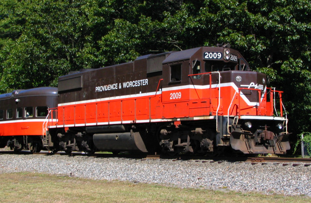 P&W Passenger Special